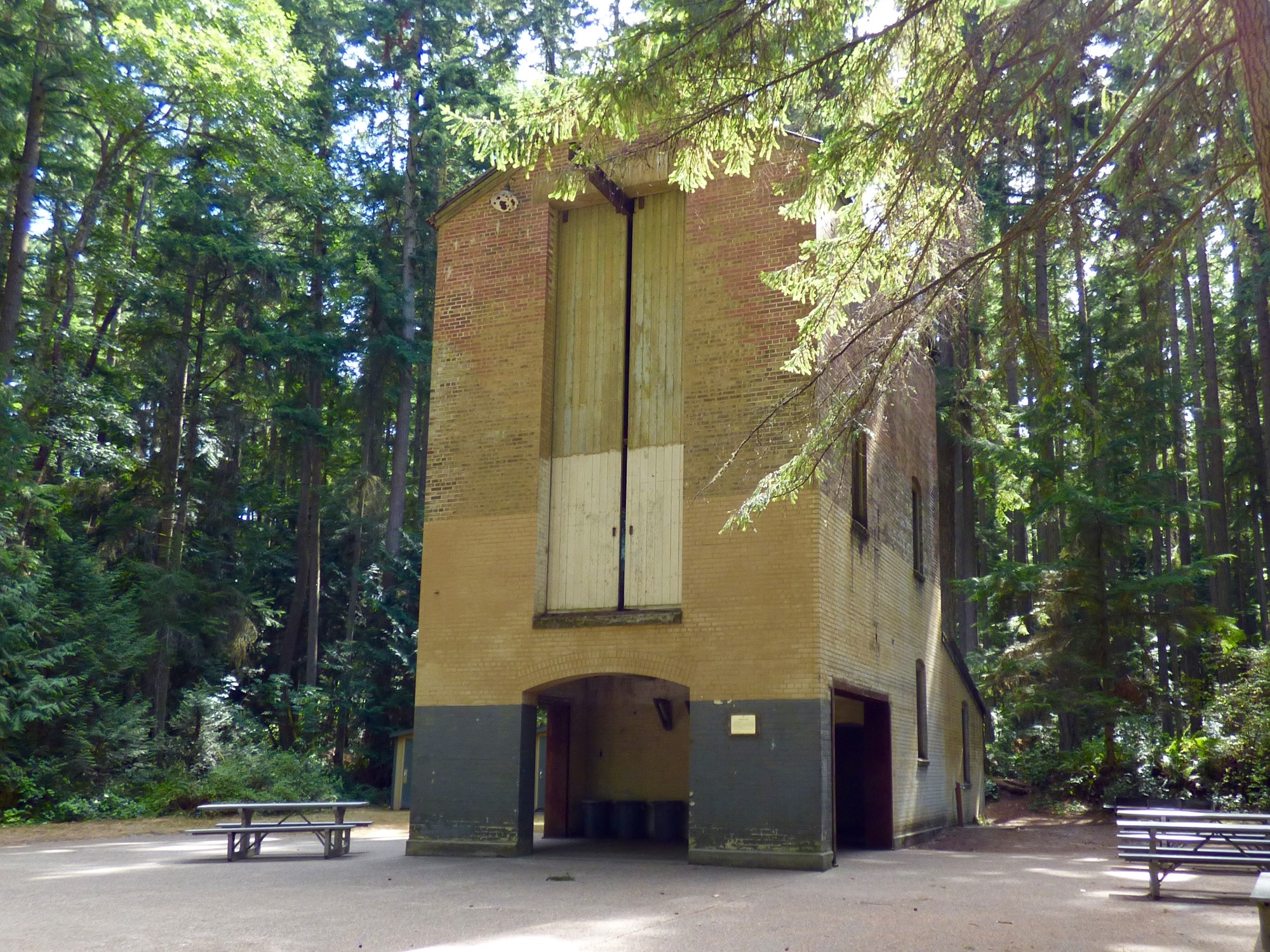 Fort Townsend WWII Navy Explosives Laboratory Building, photo by John Stanton 26 Aug 2015